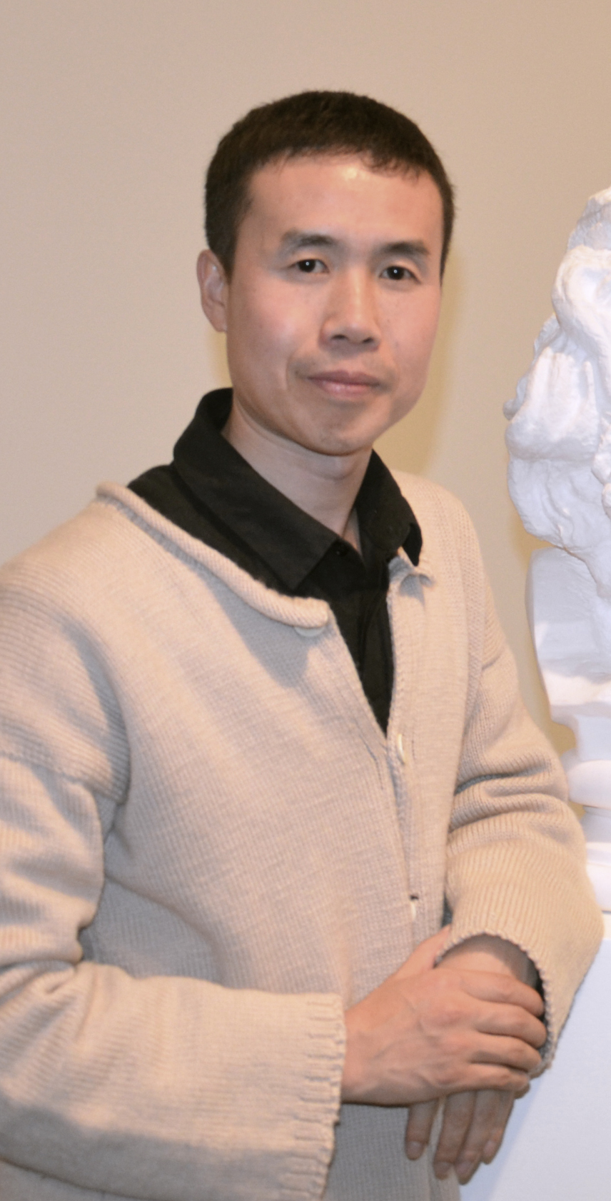 This a portrait photo of artist Li Hongbo.